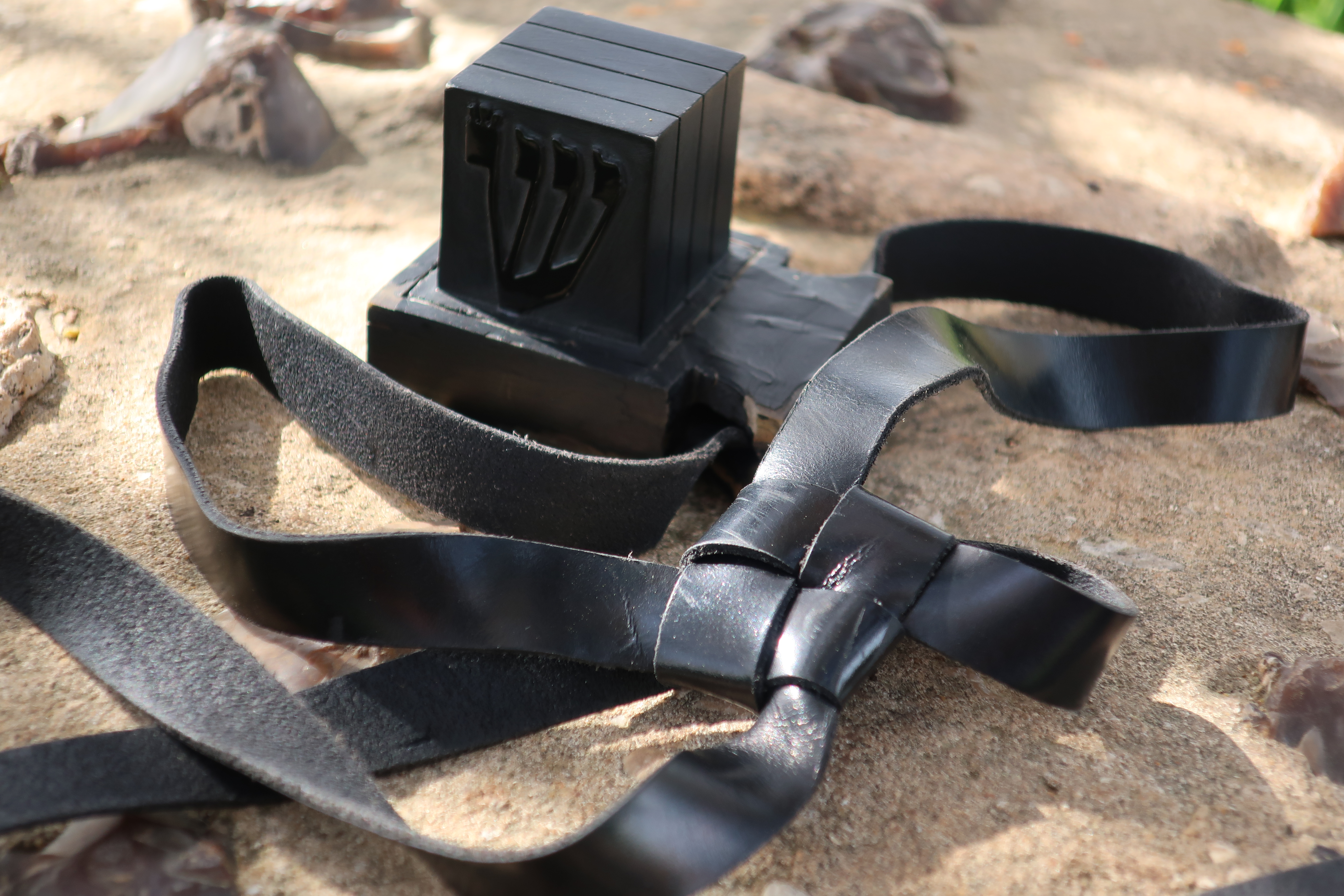 Head Tefillin (phylactery) showing the manner in which the knot is tied, according to Yemenite Jewish tradition